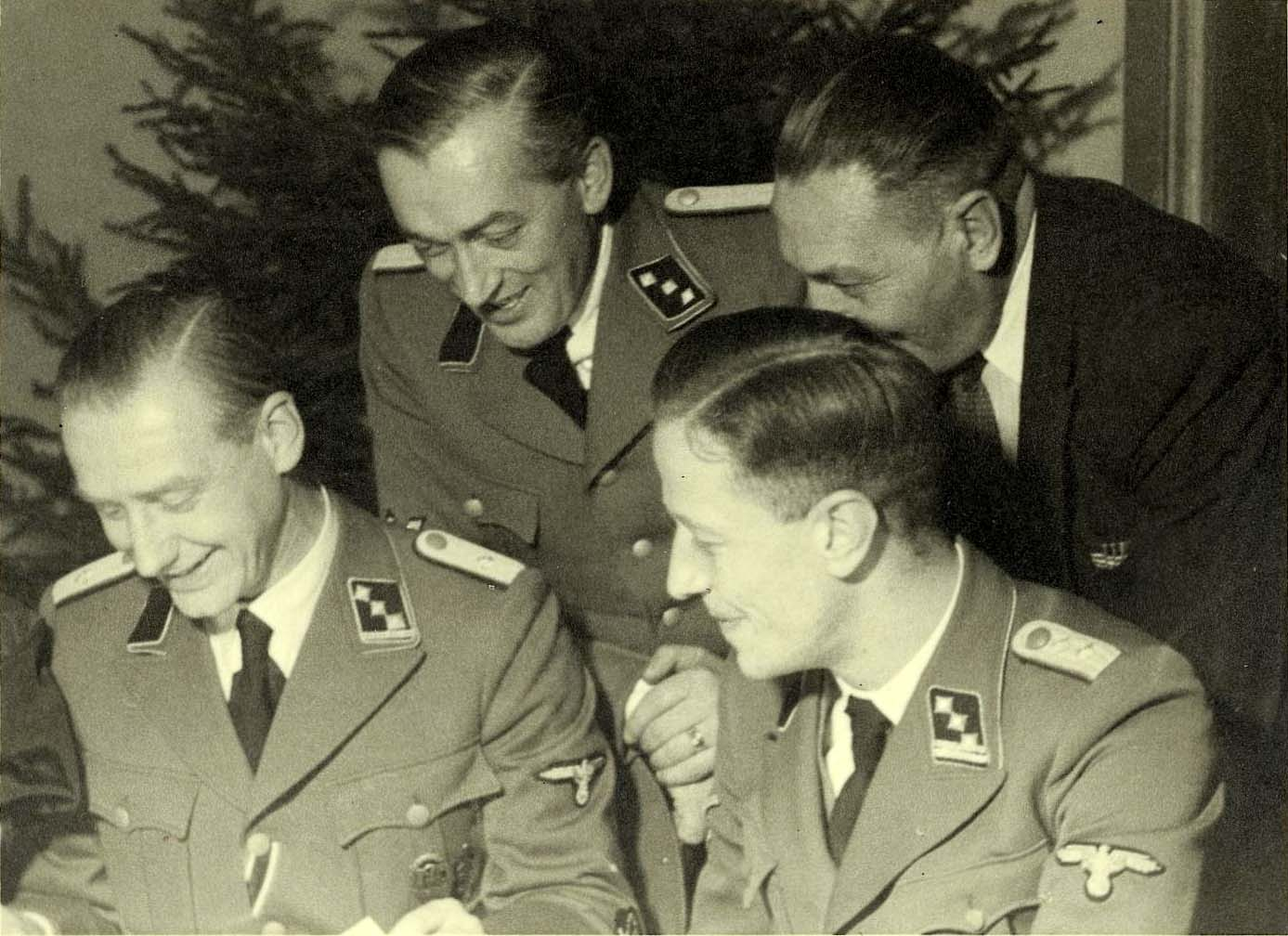 German war criminal Ferdinand aus der Fünten (1909-1989) (down right), two other SS officers (Gemmeker & Hassel) and Mr. Scheltnes. Camp Westerbork, "Yule" (near Christmas), 1942.